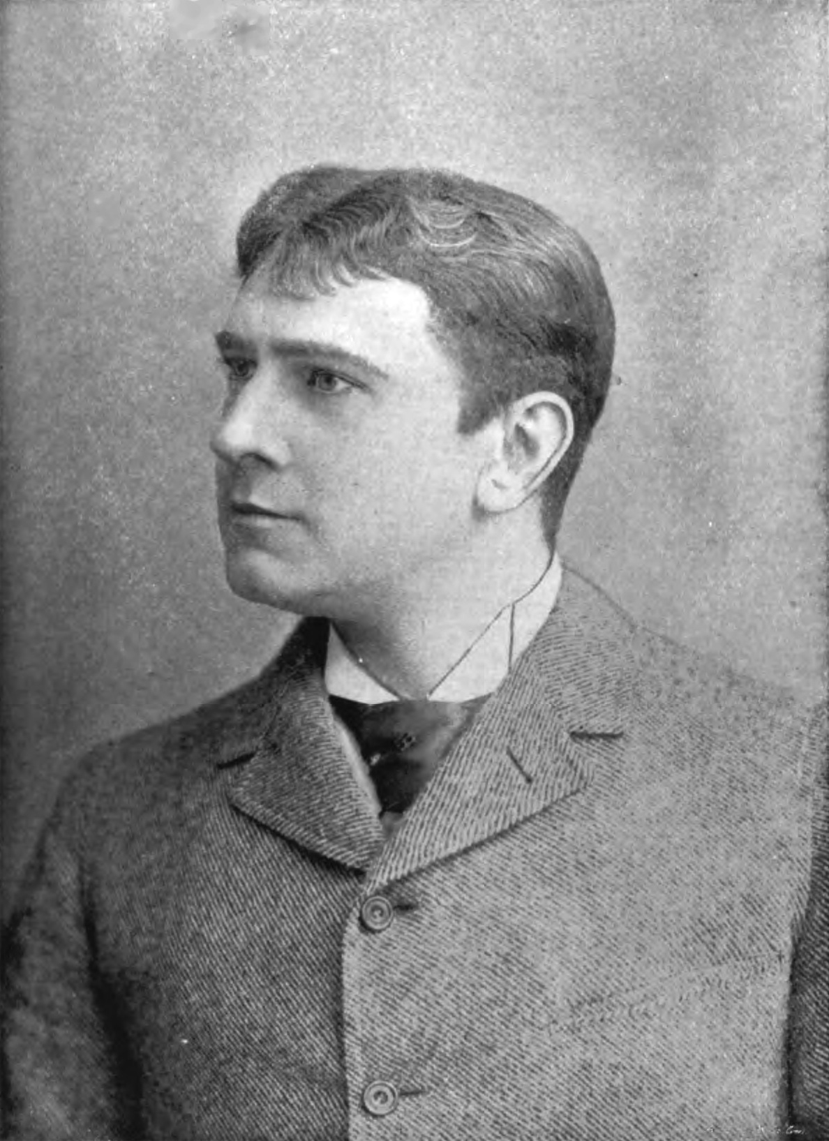 Maurice Barrymore ca. 1894. Credit reads: “From Photo by Morrison.” Caption reads: ”Mr. Barrymore, whose real name is Herbert Blythe, was born in England, took his degree at Cambridge University, and studied for the Indian Civil Service. He gave up the idea of going to India and was called to the bar, but gave up the law for the stage. He played his first engagement in this country at the Fifth Avenue Theatre, New York, and has since gained fame as leading man for Mme. Modjeska, Mrs. Langtry, and others, and also in A. M. Palmer’s company. He is also a notable playwright, having written Nadjesda for Mme. Modjeska, and the libretto for the comic opera The Robber of the Rhine. He married, in 1877, Georgie Drew, daughter of Mrs. John Drew, but she died in July, 1893, at Santa Barbara, Cal.”